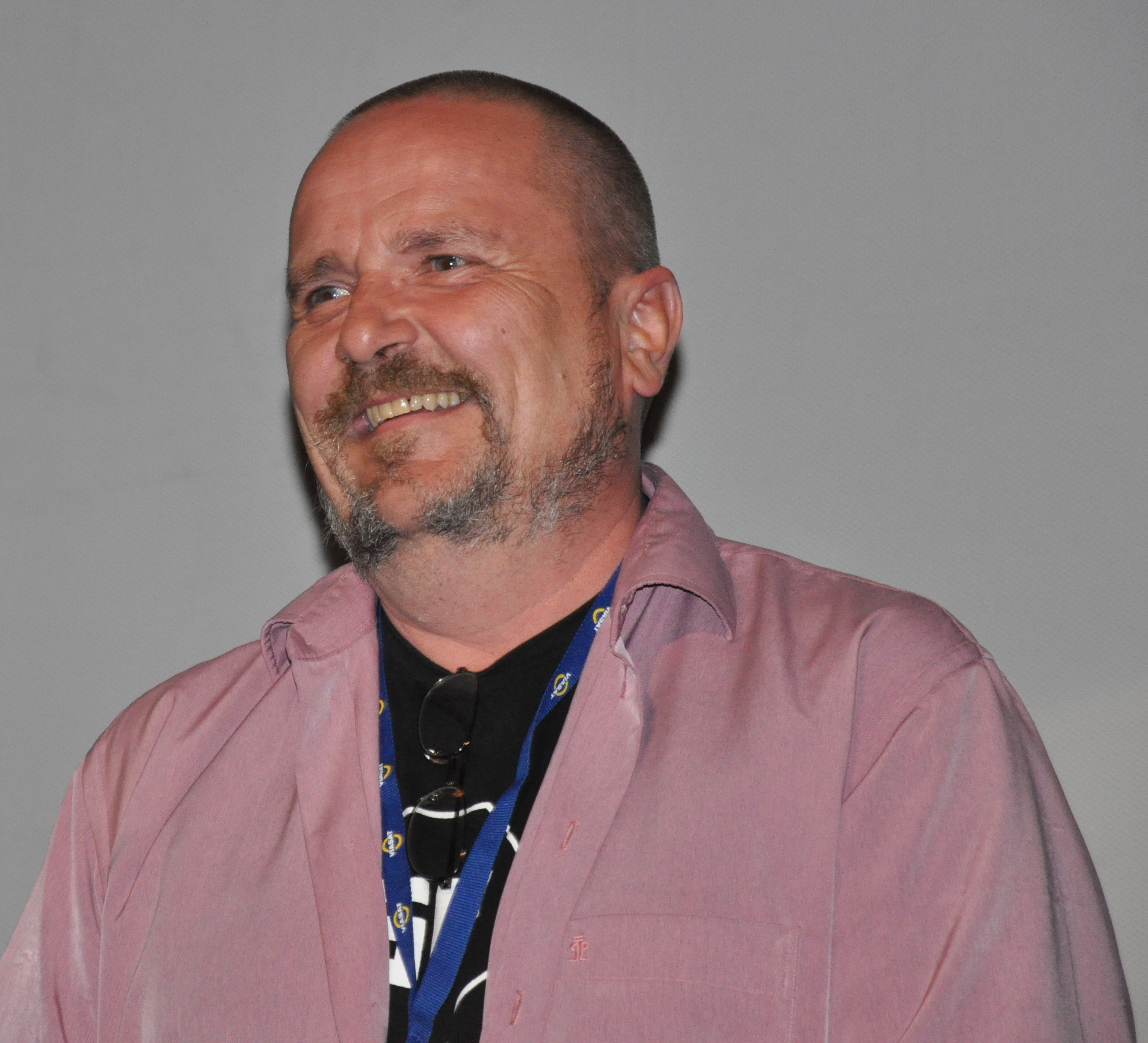 Finnish musician Sakari Kuosmanen at the Midnight Sun Film Festival 2009 in Sodankylä, Finland.